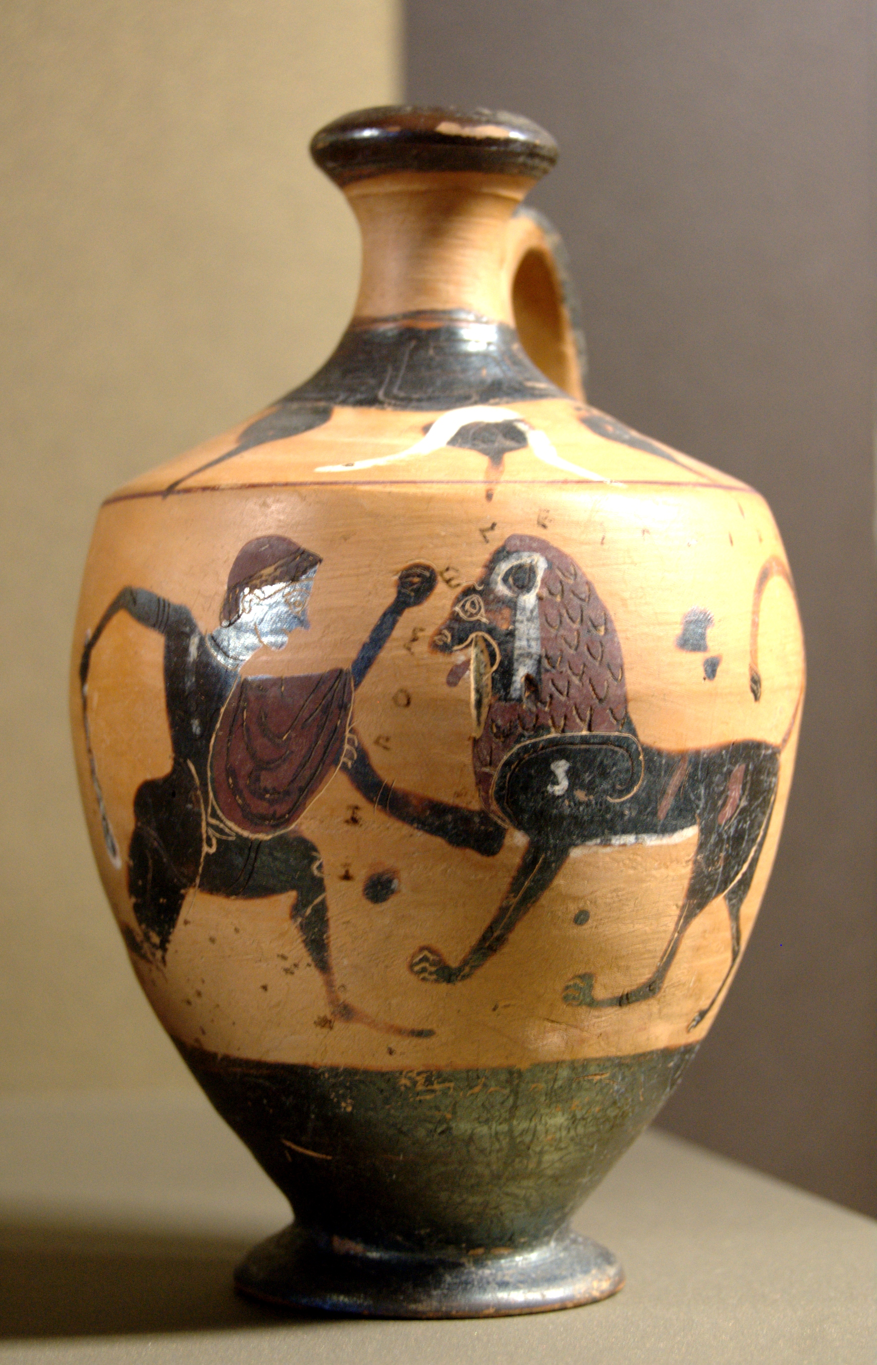 Heracles and the Nemean Lion. Boeotian or Euboean black-figure lekythos, ca. 540 BC. From Boeotia.